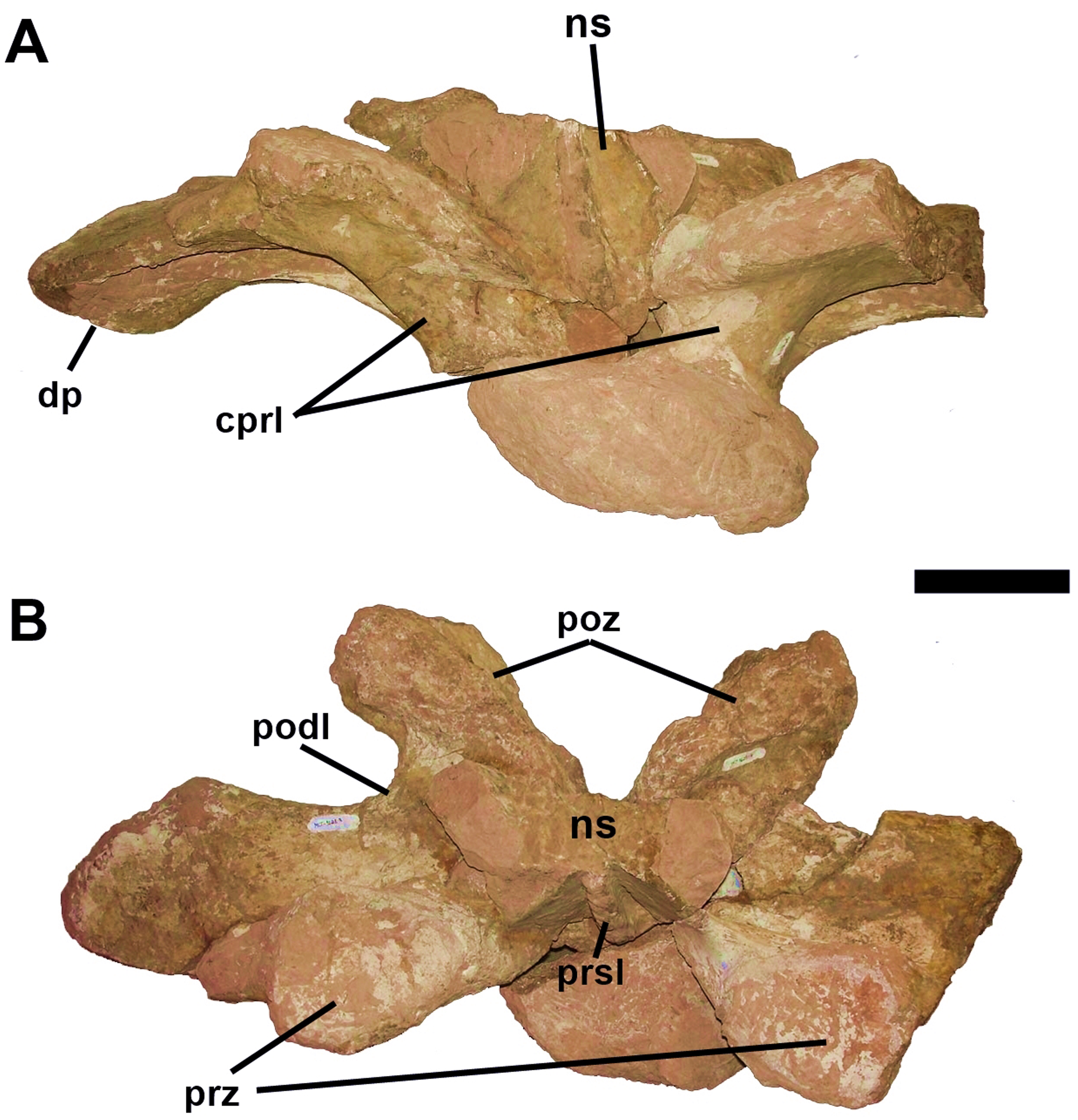 First dorsal vertebra (D1) of Austroposeidon magnificus gen. et sp. nov. (A) In anterior, (B) left anterolateral, (C) dorsal, (D) and posterior views. Abbreviations: cprl, centroprezygapophyseal lamina; ns, neural spine; prsl, prespinal lamina; prz, prezygapophysis; poz, postzygapophysis; spol, spinopostzygapophyseal lamina. Scale bar: 100mm.